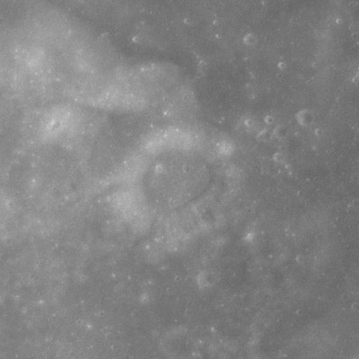 Theiler, on the moon. Camera altitude 173 km, sun elevation 53 deg.